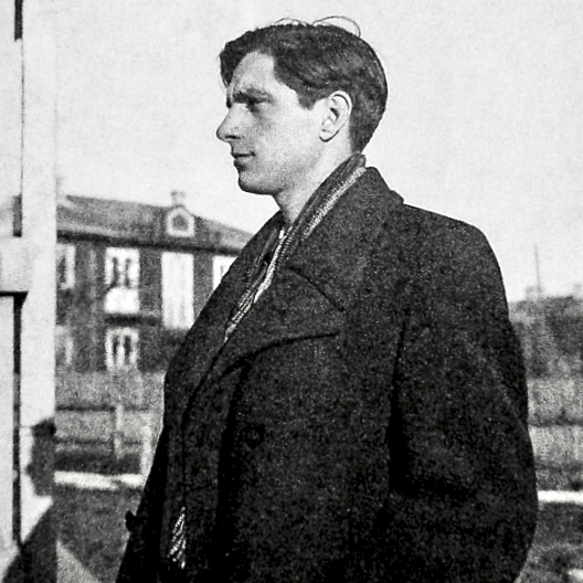 Algirdas Savickis (10 September 1917 in Copenhagen – 1 October 1943 in the Kovno Ghetto in German-occupied Lithuania) was a Lithuanian painter, the oldest son of the Lithuanian diplomat and writer Jurgis Savickis (1890–1952) and Ida Trakiner-Savickienė (1894–1944), a dentist whose (Jewish) family was settled in Saint Petersburg where she owned a glass factory. Algirdas Savickis was shot by a Lithuanian guard of the ghetto when he tried to protect his young wife.